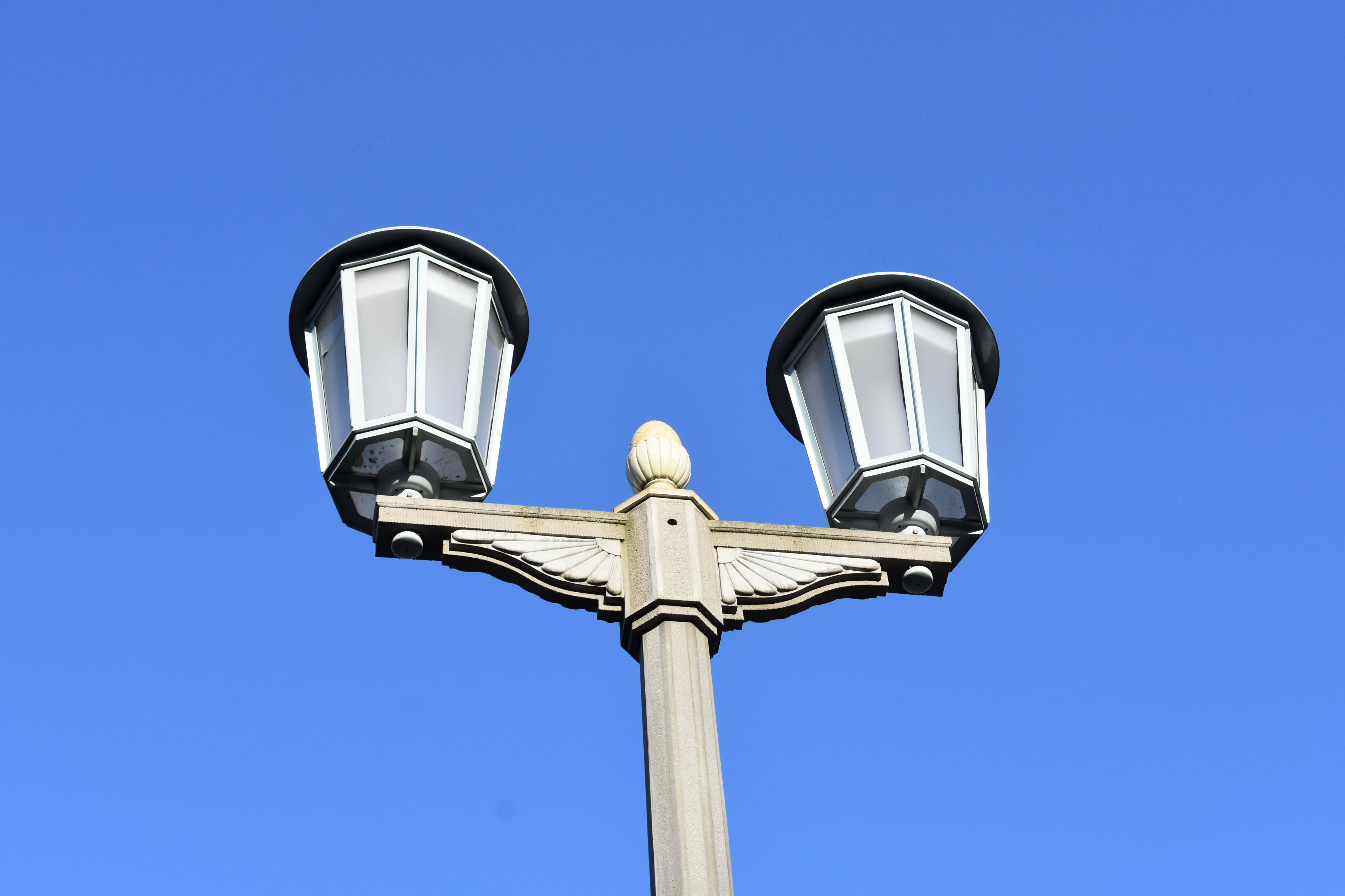 Karl-Marx-Allee, East German architecture, Berlin (8)